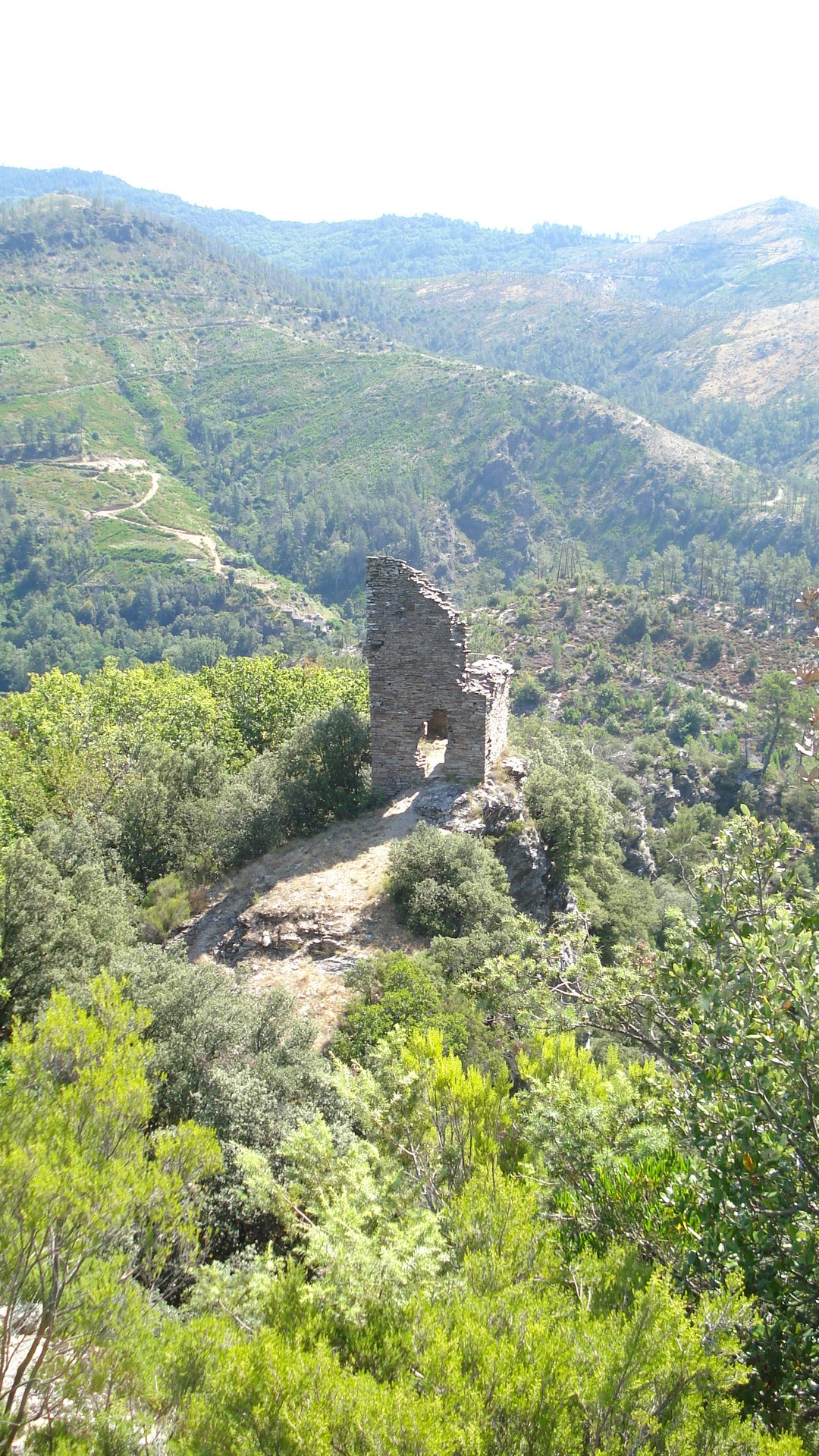 tower of the castelas in Saint-Étienne-Vallée-Française (Lozère)